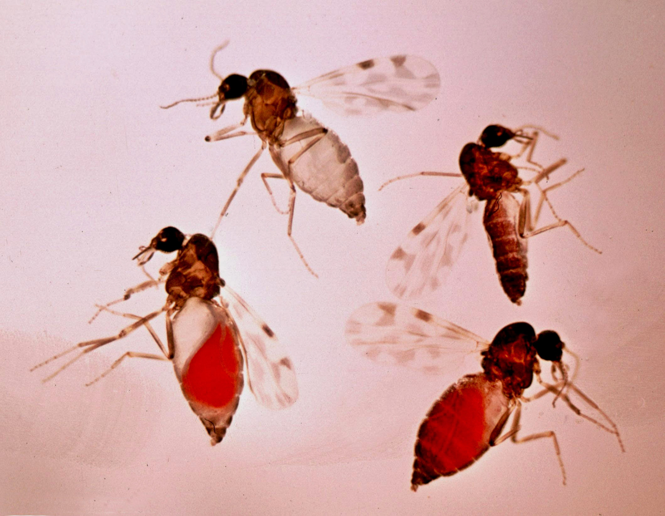 Culicoides imicola blood feeding female midges showing stages of blood feeding in relation to transmission of viruses. Top left is nulliparous (unfed and before any egg laying). Bottom left is nulliparous with its first blood meal. Top right is a parous female after at least one blood meal and egg laying - it has brown pigment in its abdomen and could transmit virus. Bottom right is parous, showing brown pigment and a fresh bloodmeal.